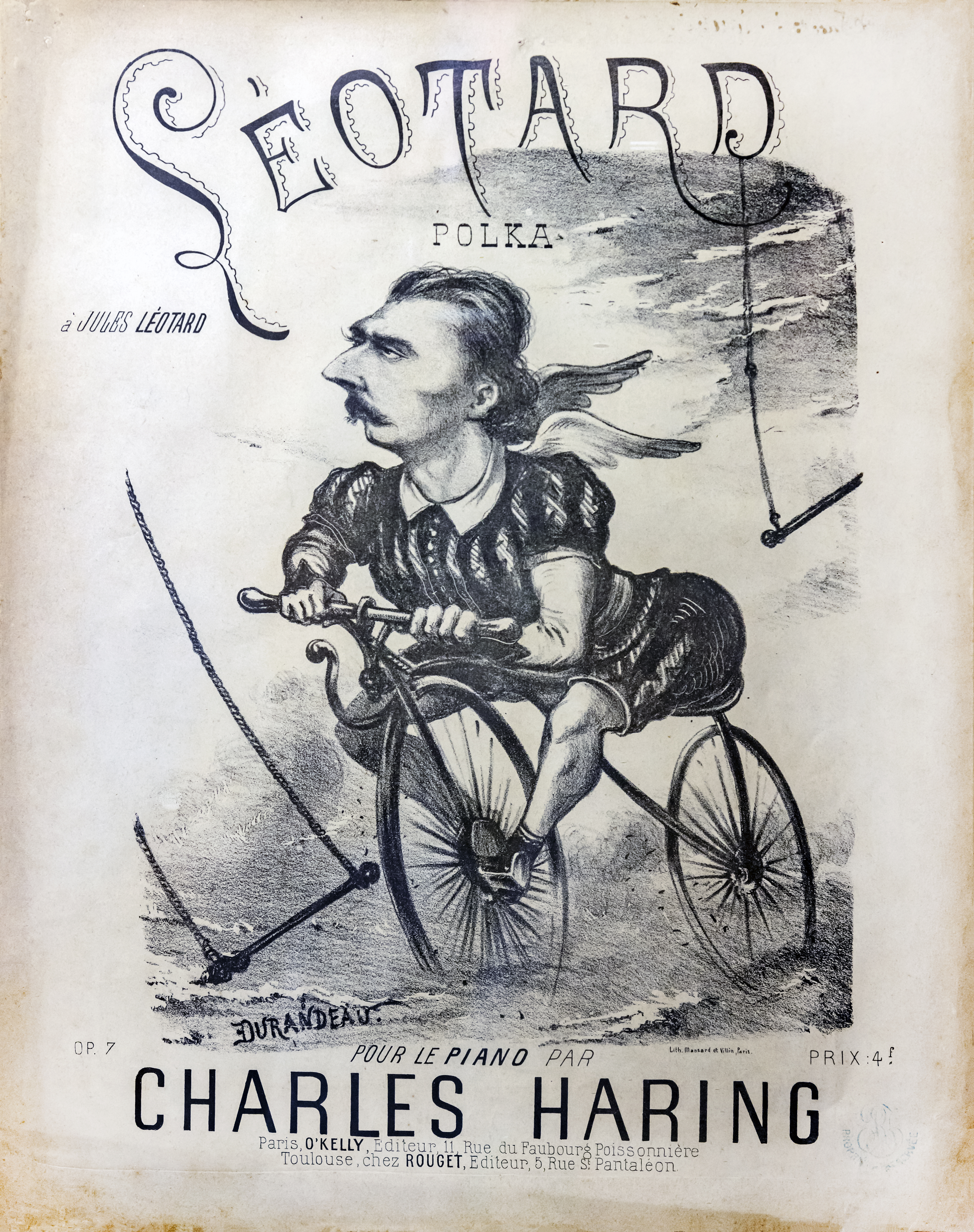 Depicted person: Jules Léotard – French entertainer